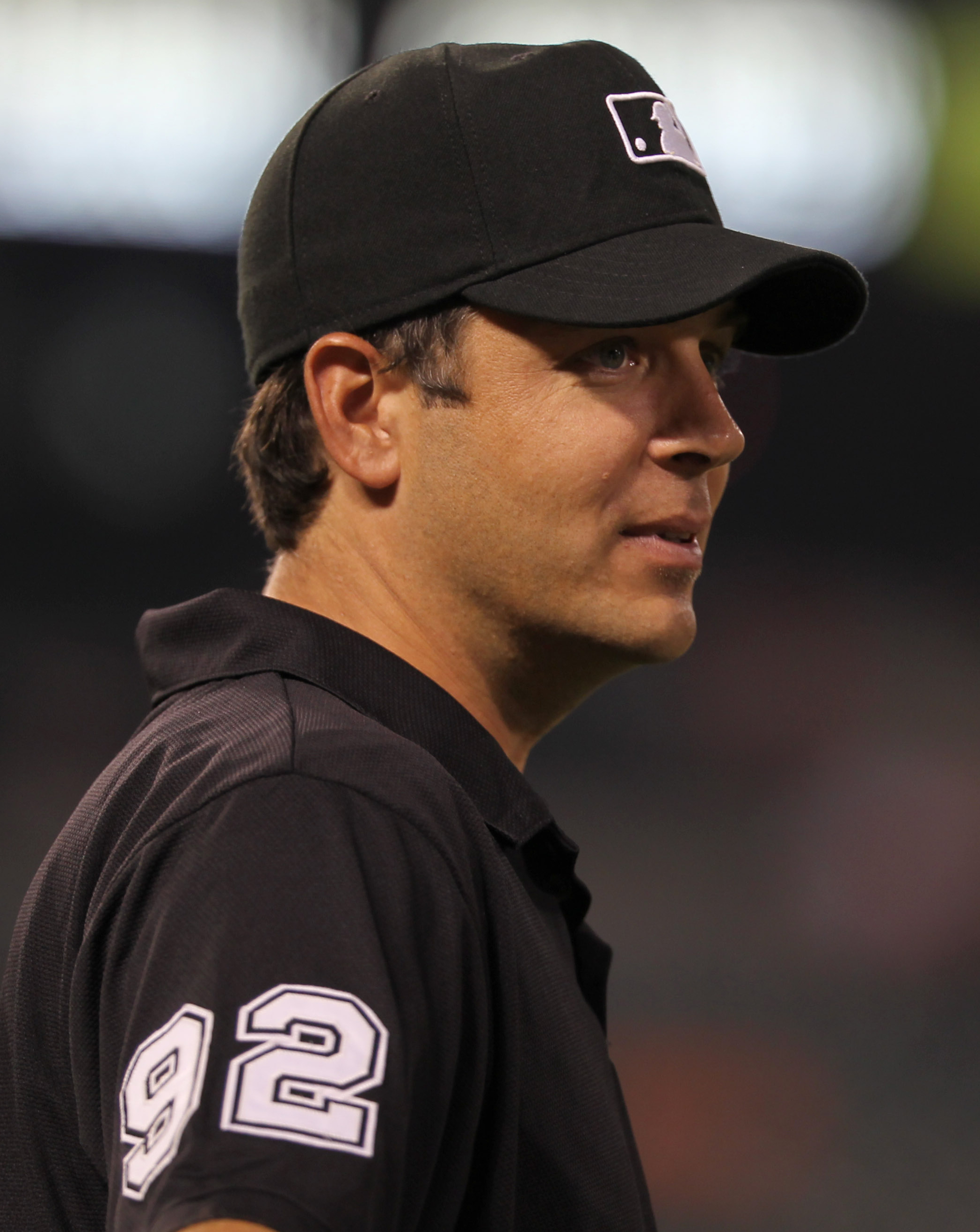 Rays at Orioles September 14, 2011